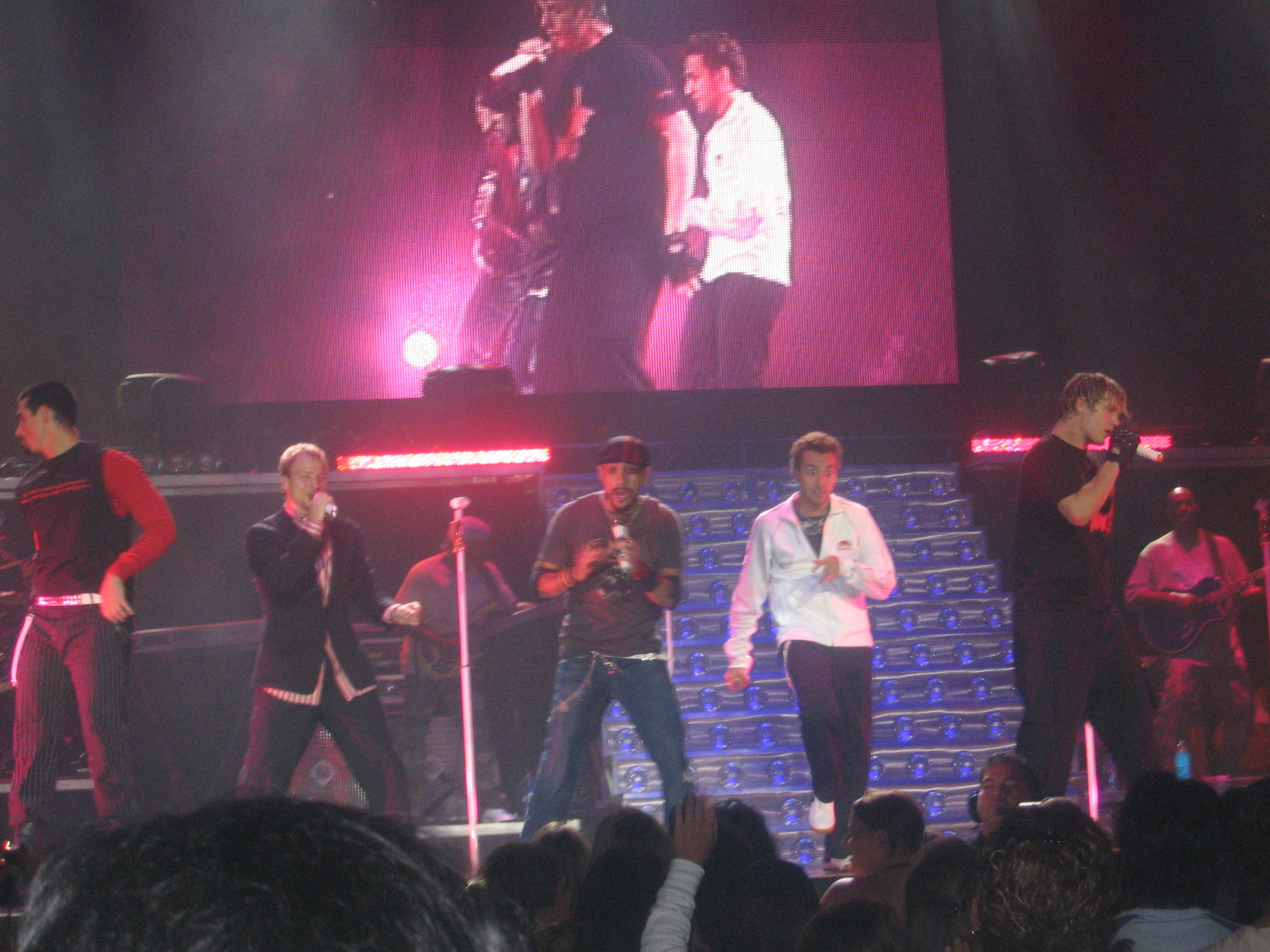 The Backstreet Boys concert in Vancouver in 2005